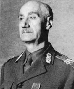 Nicolae Rădescu, Romanian general and politician, official photograph from the 1940s (during his term as premier).